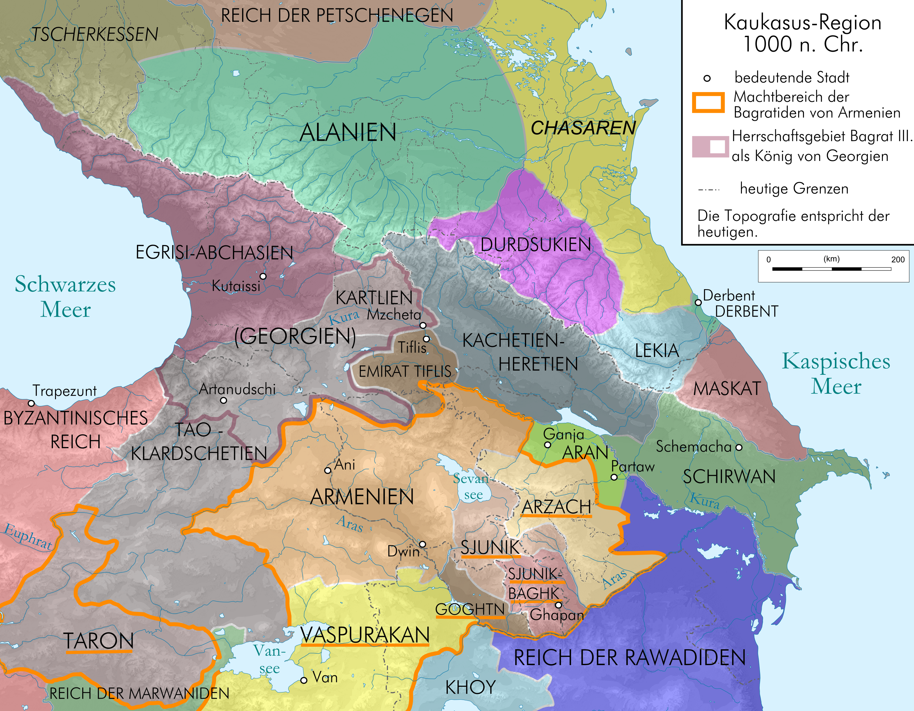 Map of Caucasus Region at 1000 AD before death of Dawit III., in German.